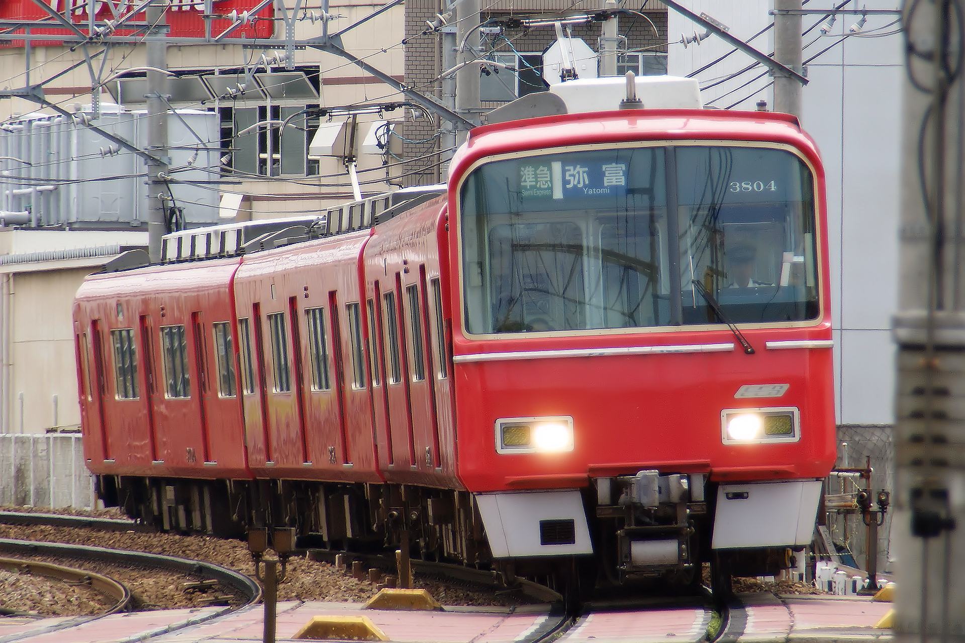 Nagoya Railroad, Series 3100. Taken at Motohoshizaki Station(Nagoya City, Aichi Prefecture, Japan)